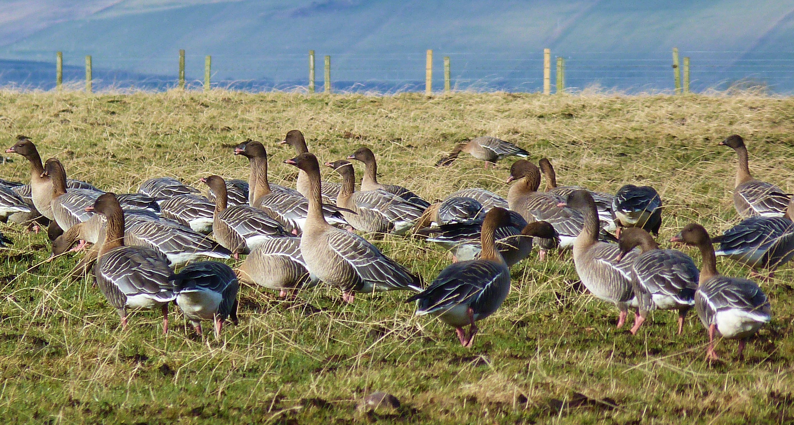 Pink-footed Geese Anser brachyrhynchus on farmland in Nairnshire, Scotland.